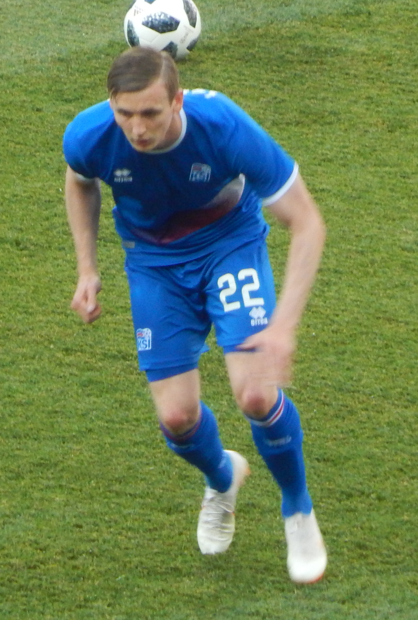 FIFA World Cup 2018, Group D, Nigeria vs. Iceland